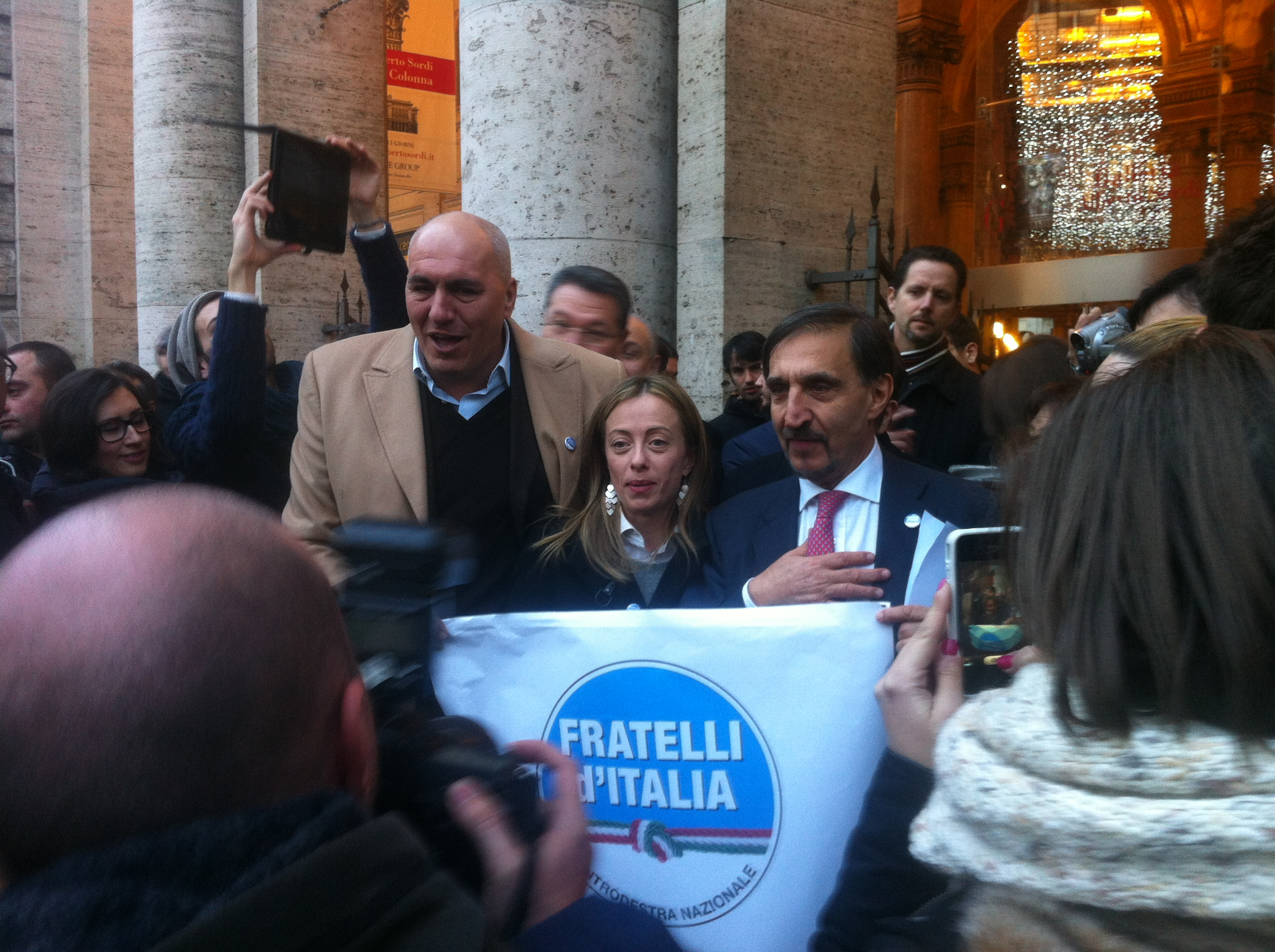 Nascita Fratelli d'Italia